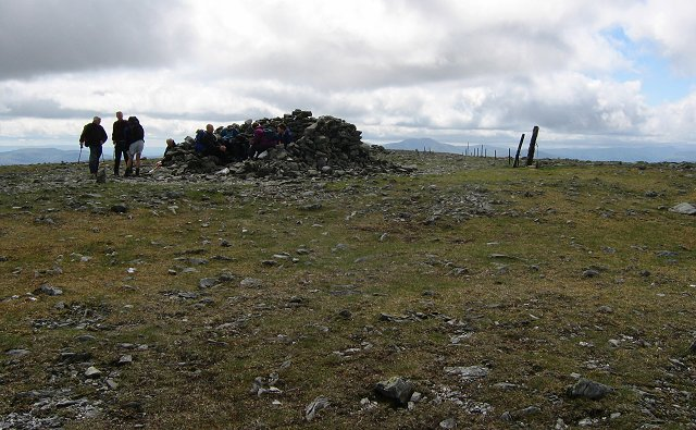 Summit of Ben Chonzie. In Scotland there is a ridiculous bias towards hills over 3000'. It's rare to meet many folk on the hills around Glen Almond, except here on Ben Chonzie, the only summit to exceed 3000' in Glen Almond range. The ascent is simple from Glen Lednock and more attractive if longer via Glen Turret. Either way it's a good day out, suitable for those just setting out on a hill-walking career. Notice the fence posts. The fence was built in the mid 1980s, it has not lasted.